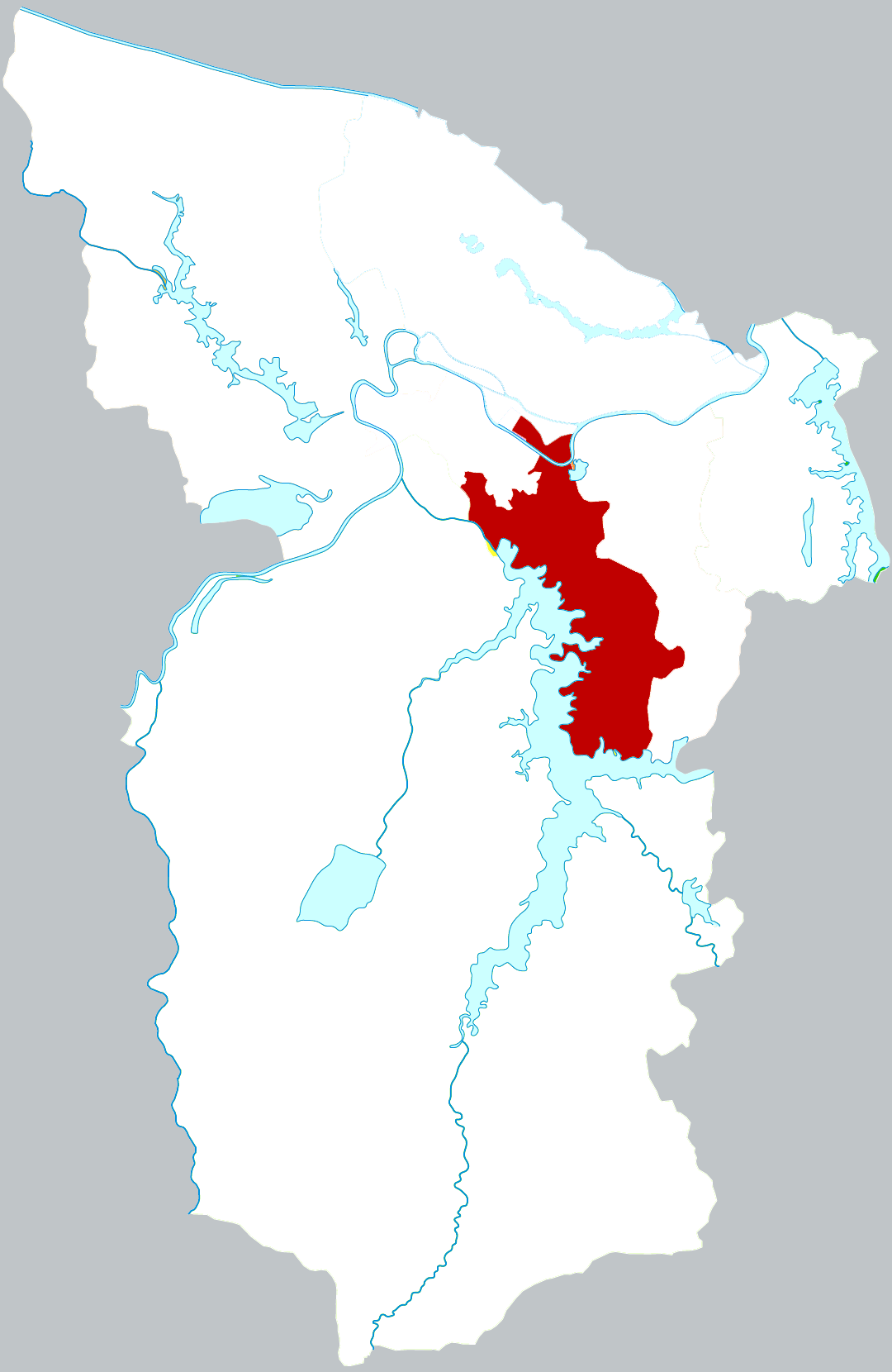 Location of Xiejiaji district in Huainan city, China